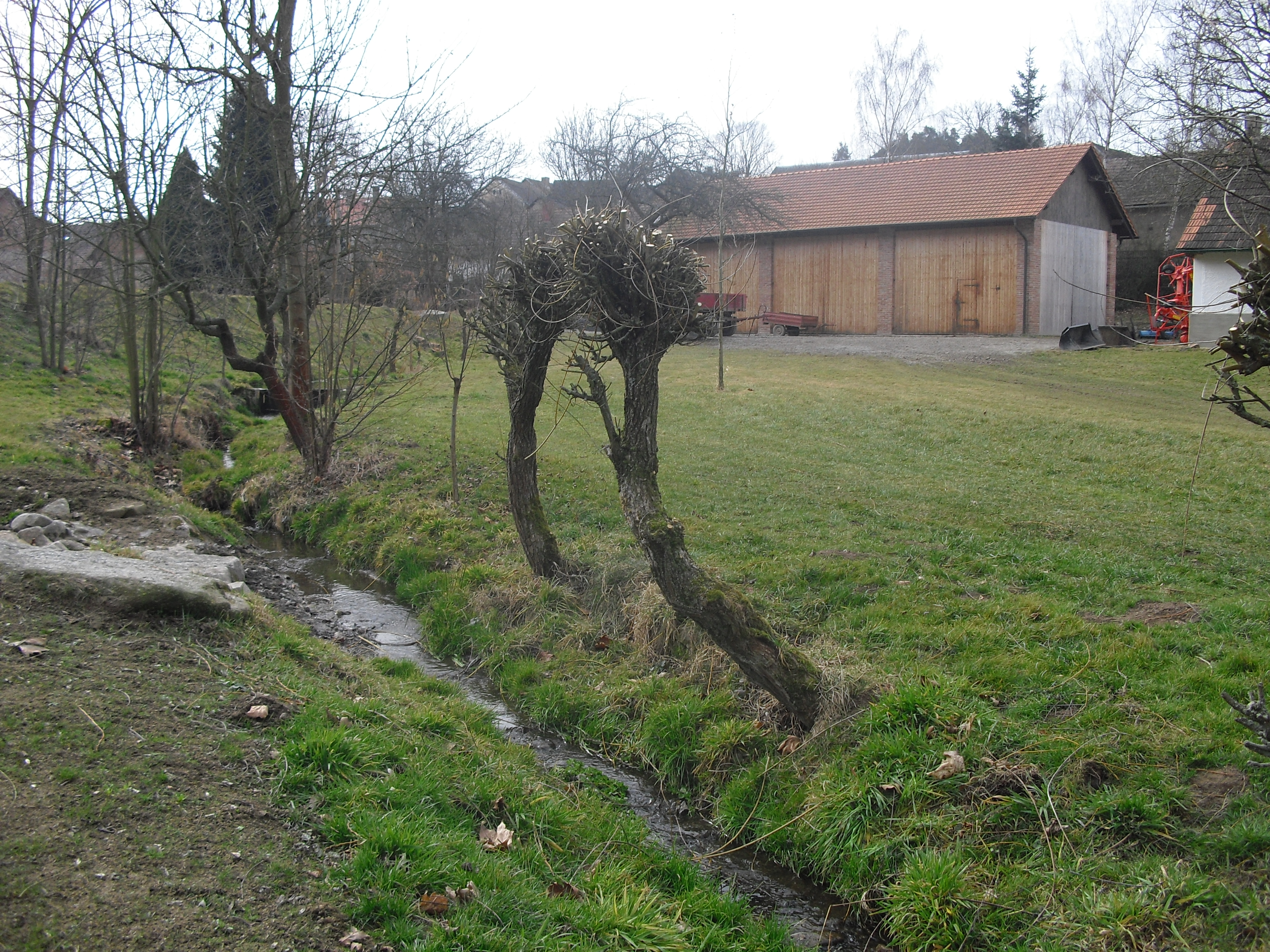 Olbramovice, Benešov District, Czech Republic, part Radotín.